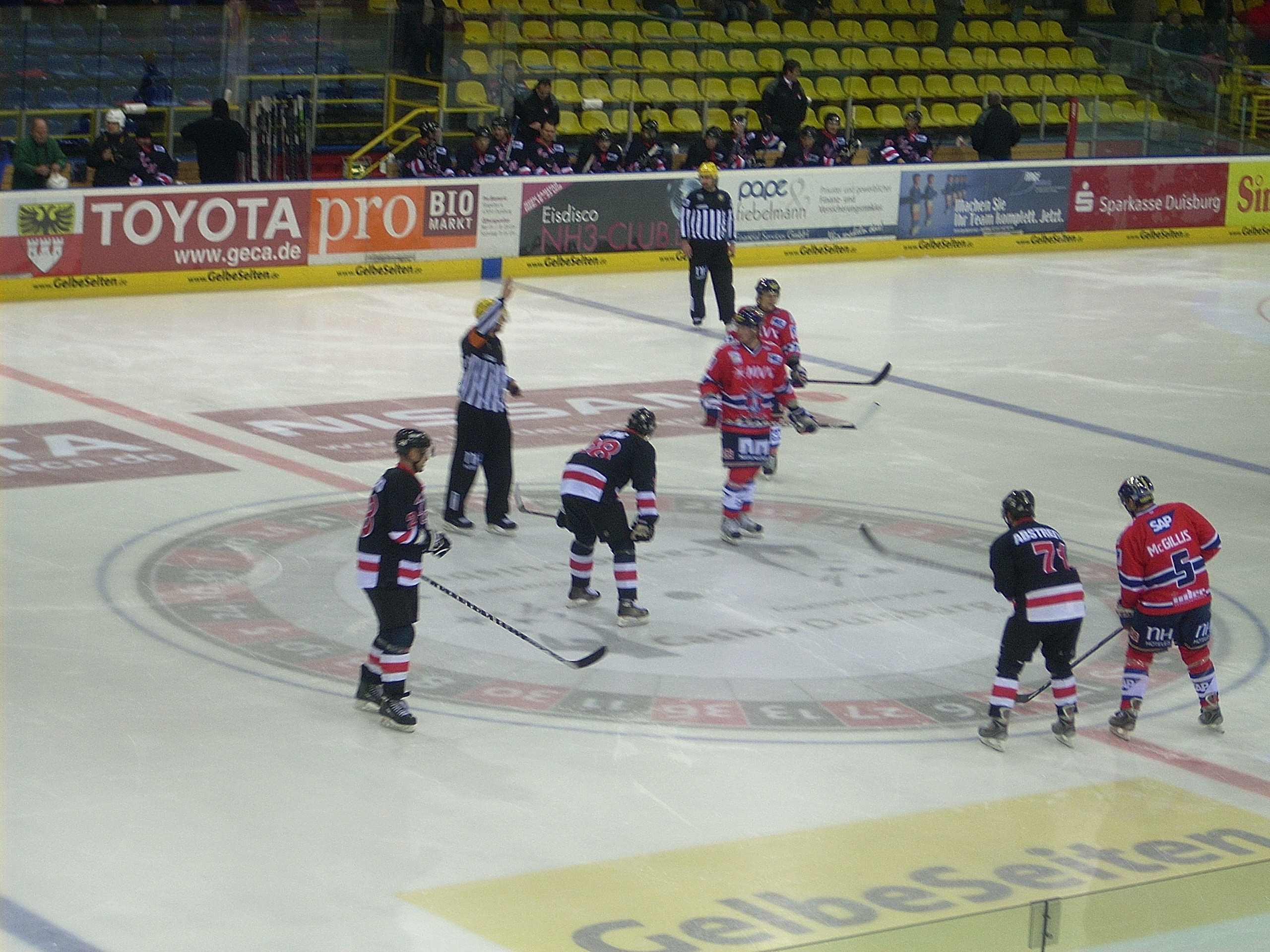 Faceoff during the DEL-game between Duisburg Foxes and Mannheim Eagles